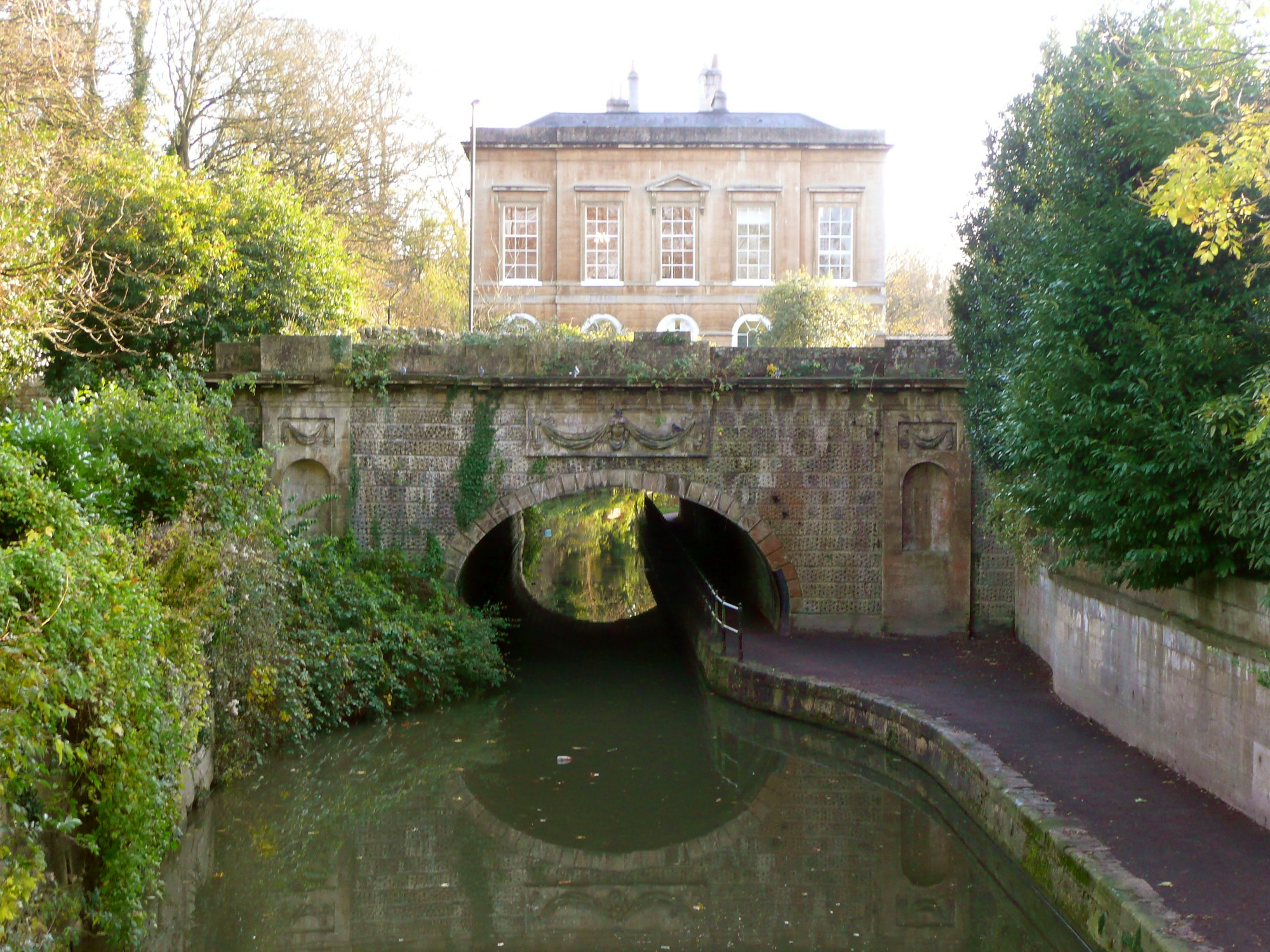 Which came first? The canal was constructed through Sydney Gardens between 1800 and 1810, and Pevsner describes Cleveland House, which is over the tunnel, as being early 19C. I should think that the canal was made in a cutting and covered over, with a tunnel portal at each end, and the house built on beams over an arch. I now wish I had walked through to inspect the inside of the tunnel.